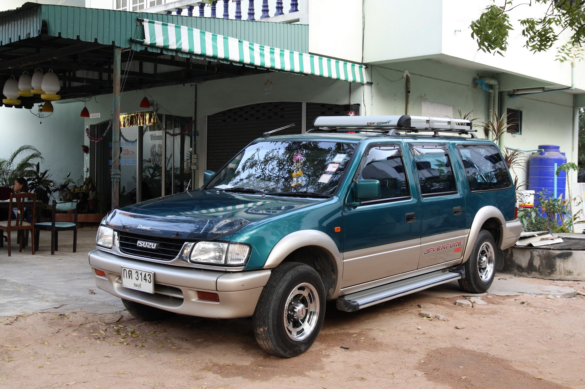 Thairung Adventure wagon based on Isuzu TF pickup in Pattaya, Thailand